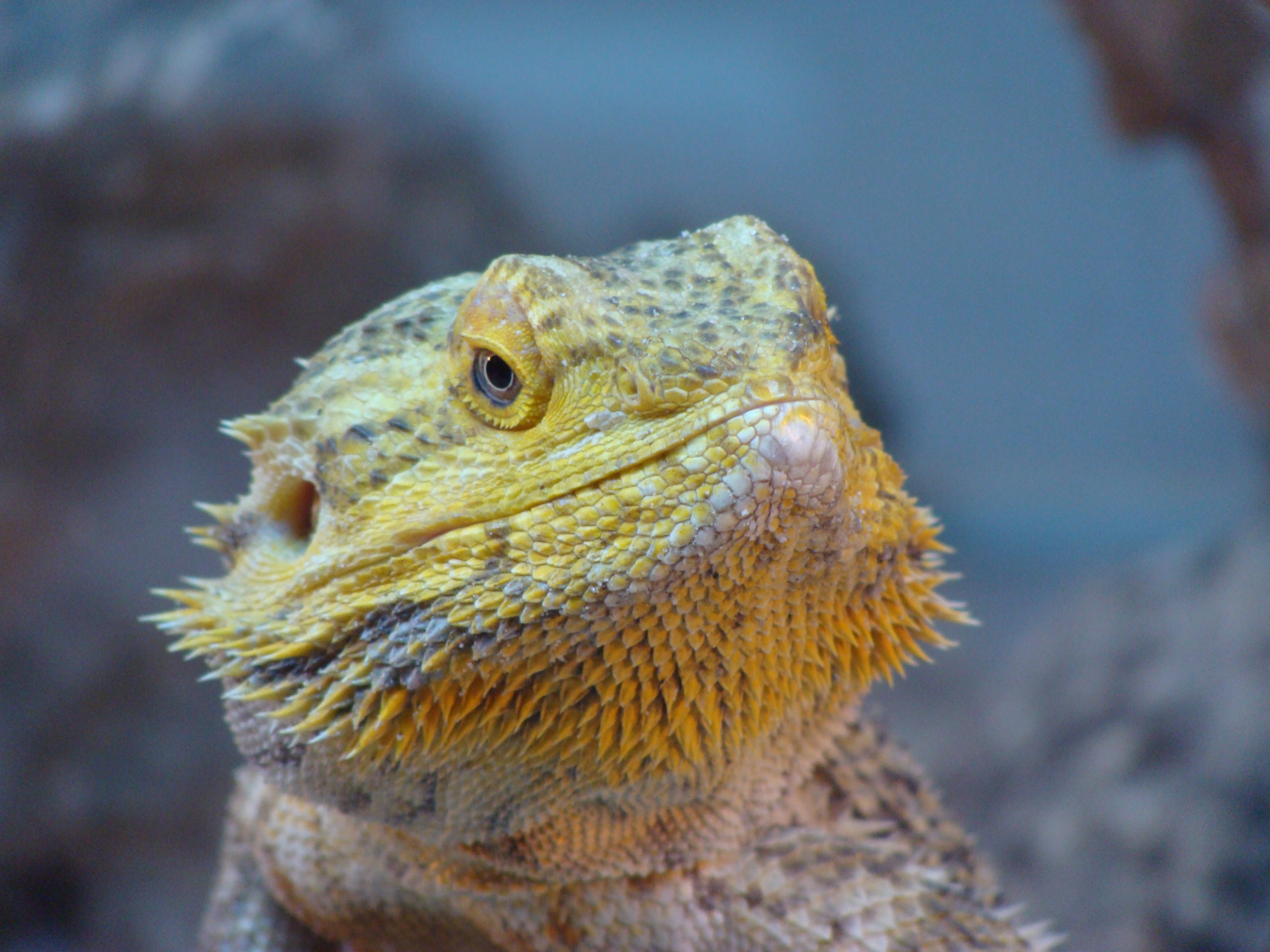 Pogona vitticeps (central bearded dragon) in the Zoo de Madrid, Spain.